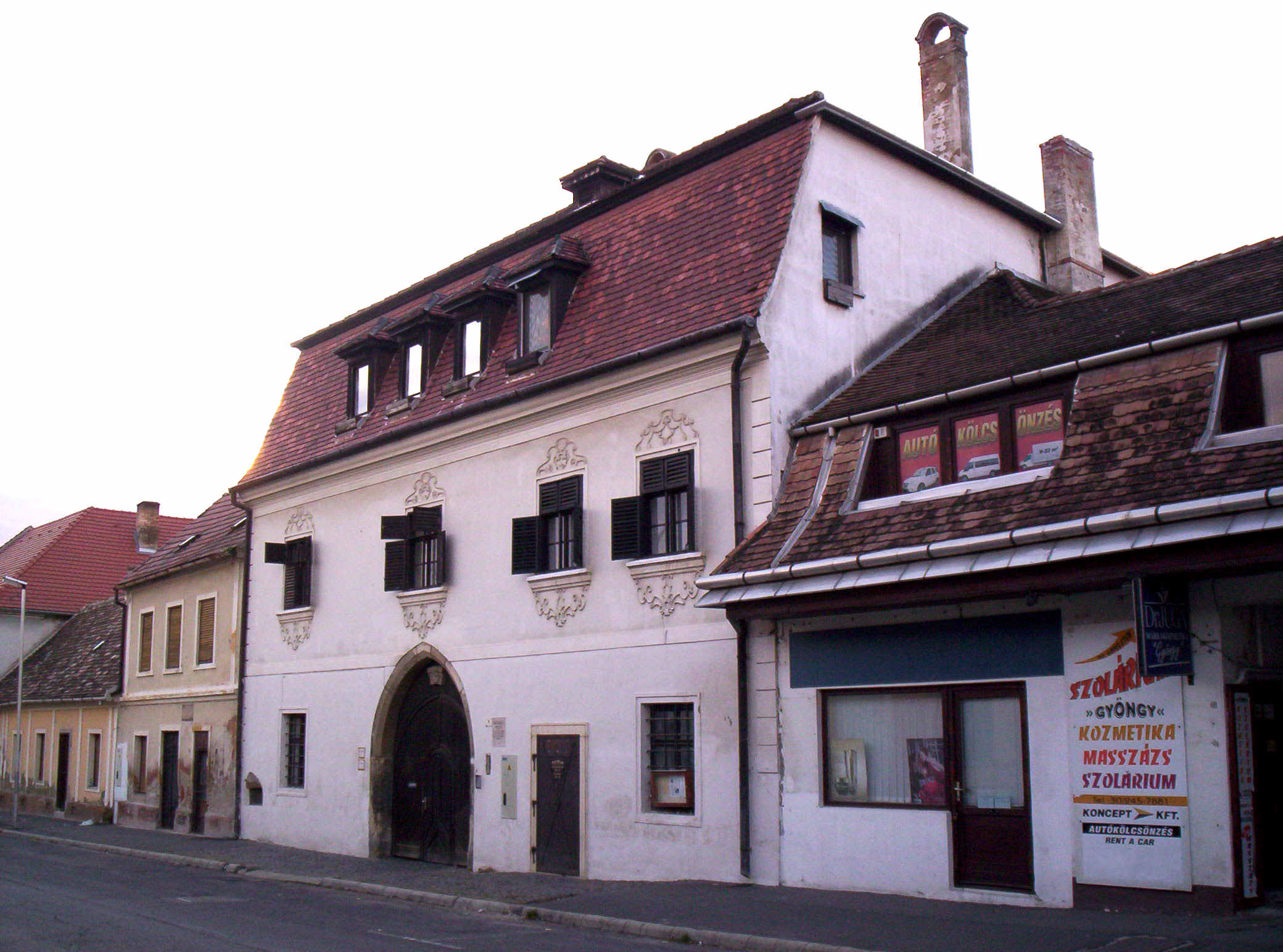 The Corvin House in Pápa, Hungary, the oldest building in the town.A pápai Korvin-ház, a város legrégibb épülete. - Pápa, Korvin utca 15